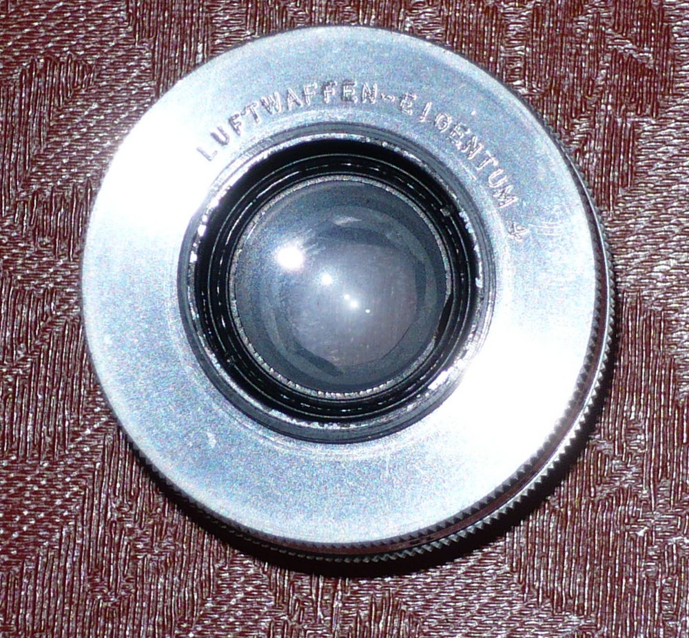 Luftwaffen Eigentum Sonnar 75mm